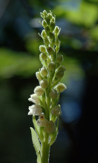 Goodyera repens, flowers, Rhön, Germany